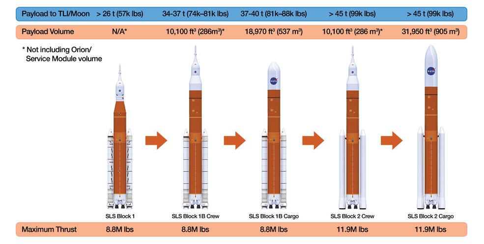 NASA has designed the Space Launch System as the foundation for a generation of human exploration missions to deep space, including missions to the Moon and Mars. SLS will leave low-Earth orbit and send the Orion spacecraft, its astronaut crew and cargo to deep space. To do this, SLS has to have enough power to perform a maneuver known as trans-lunar injection, or TLI. This maneuver accelerates the spacecraft from its orbit around Earth onto a trajectory toward the Moon. The ability to send more mass to the Moon on a single mission makes exploration simpler and safer.